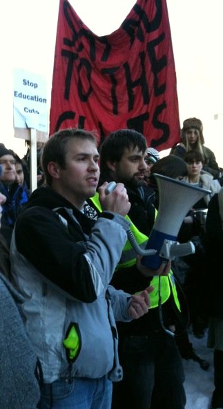 NUS President Liam Burns (forefront) speaking at a protest against tuition fees and education cuts outside the Scottish Parliament in Holyrood, Edinburgh on the 8th December 2010 (the day before the tuition fee vote was passed through Westminster). He was President of NUS Scotland at the time. Note he is not wearing a blue, checkered shirt.